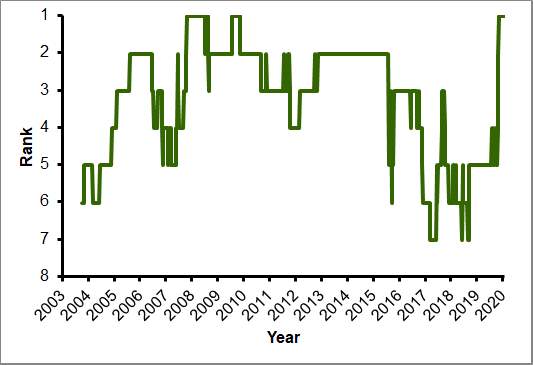 IRB World Rankings from